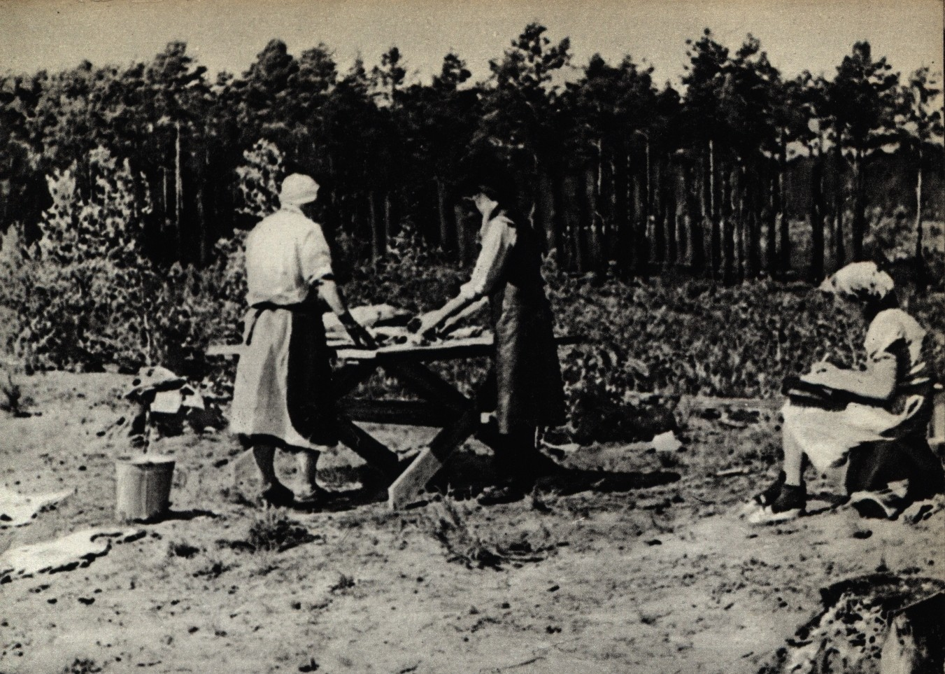 Place of mass executions in Palmiry near Warsaw where approx. 1700 Poles and Jews were killed by Nazi-German occupants in 1939–1941. This post-war photography shows the autopsy performed by professor Wiktor Grzywo-Dąbrowski.